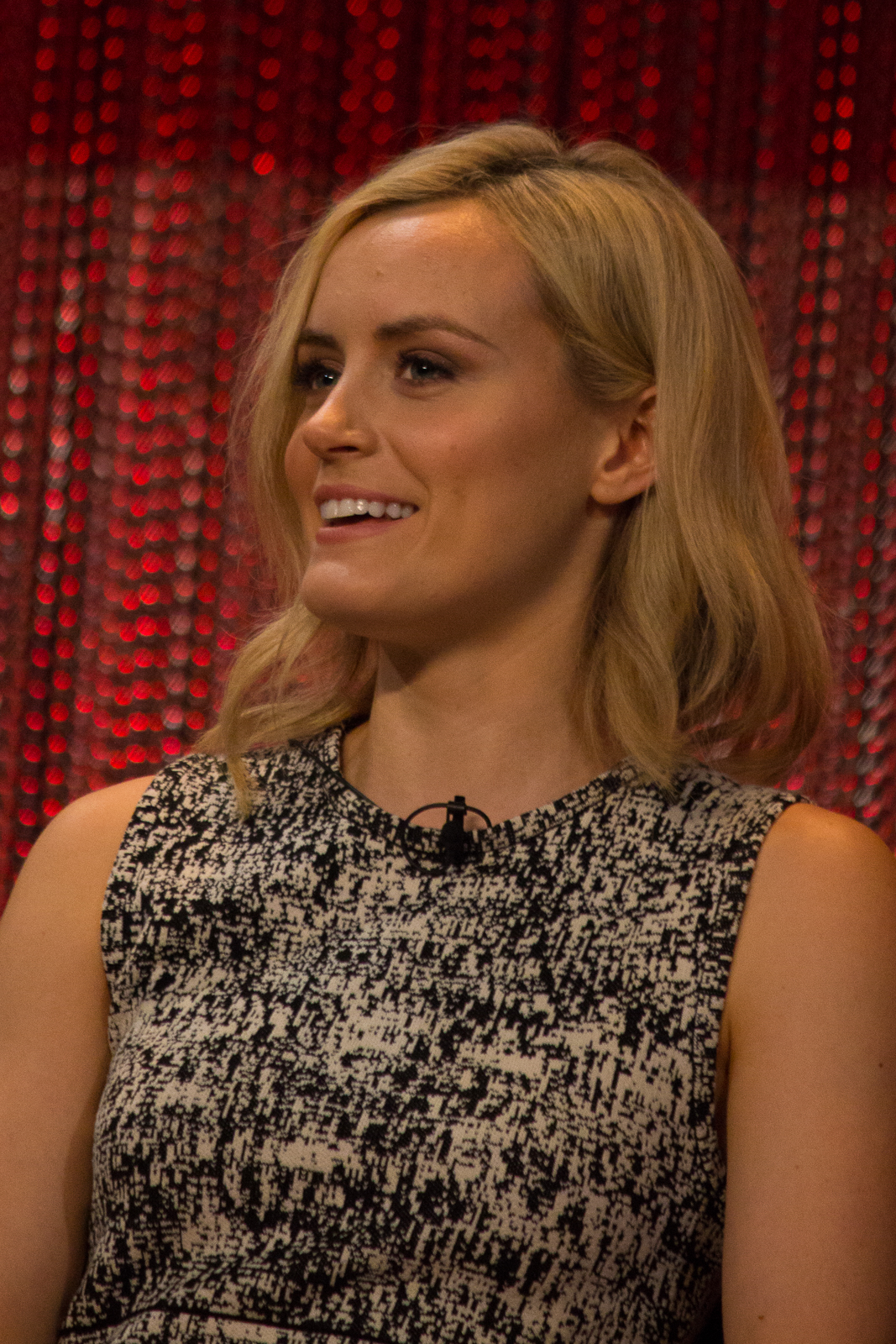 Actress Taylor Schilling at The Paley Center For Media's PaleyFest 2014 Honoring "Orange Is The New Black"